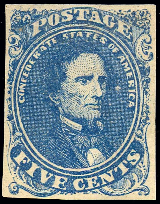 Confederate Postage stamp, Jefferson Davis, 5-cent